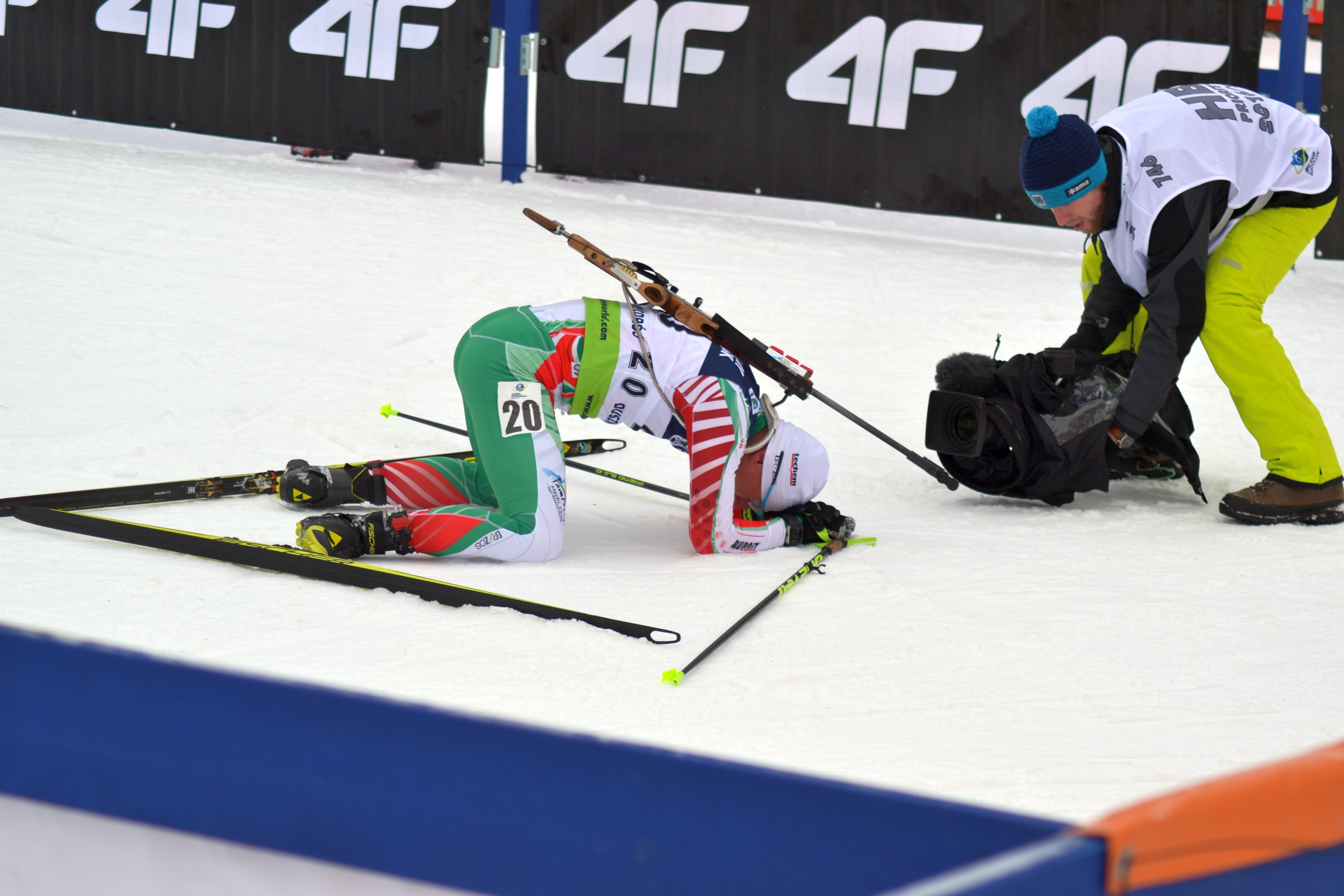 Open European Championships Biathlon 2017, Individual Men's race, held on January 25th.